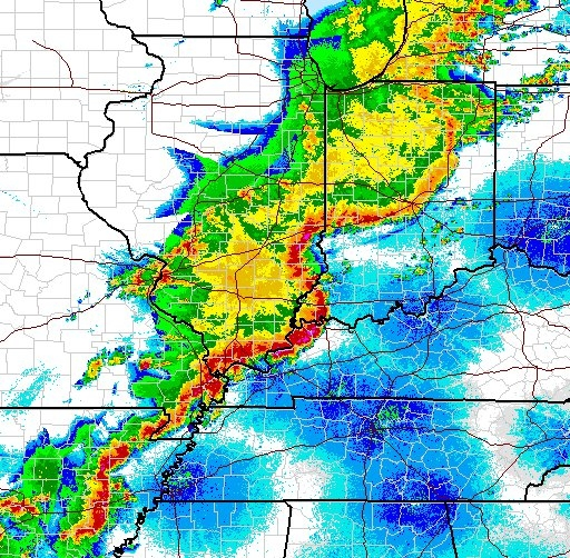 A LEWP producing a derecho in central Illinois